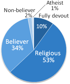 The religiosity levels of Turkish people, according to KONDA research firm [1] (note the figures in this chart have been rounded/approximate) Fully devout: person who fullfills all religious obligations Religious: person who tries to fullfill religious obligations Believer: person who believes but does not fullfill religious obligations Non-believer: person who does not believe in religious obligations Atheist: person with no religious conviction